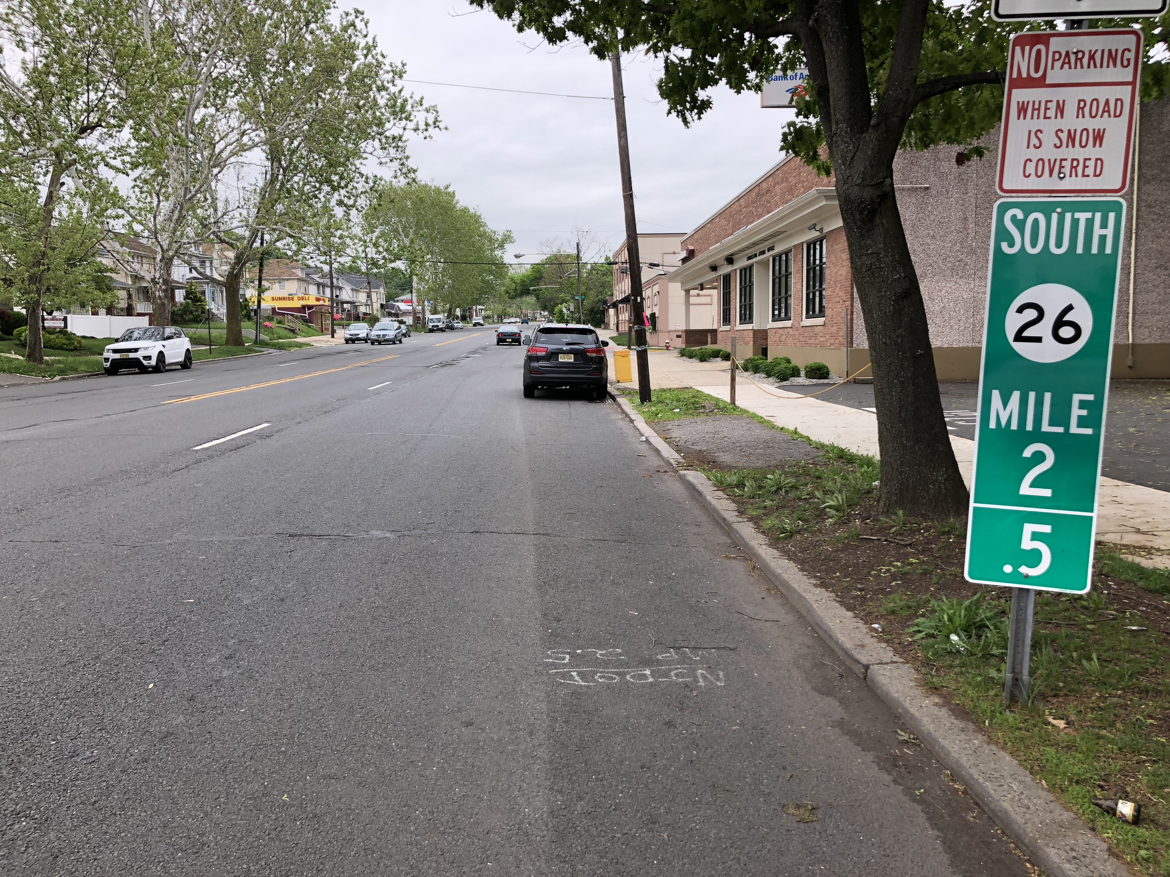 View south along New Jersey State Route 26 (Livingston Avenue) at Hollywood Street on the border of New Brunswick and North Brunswick Township in Middlesex County, New Jersey